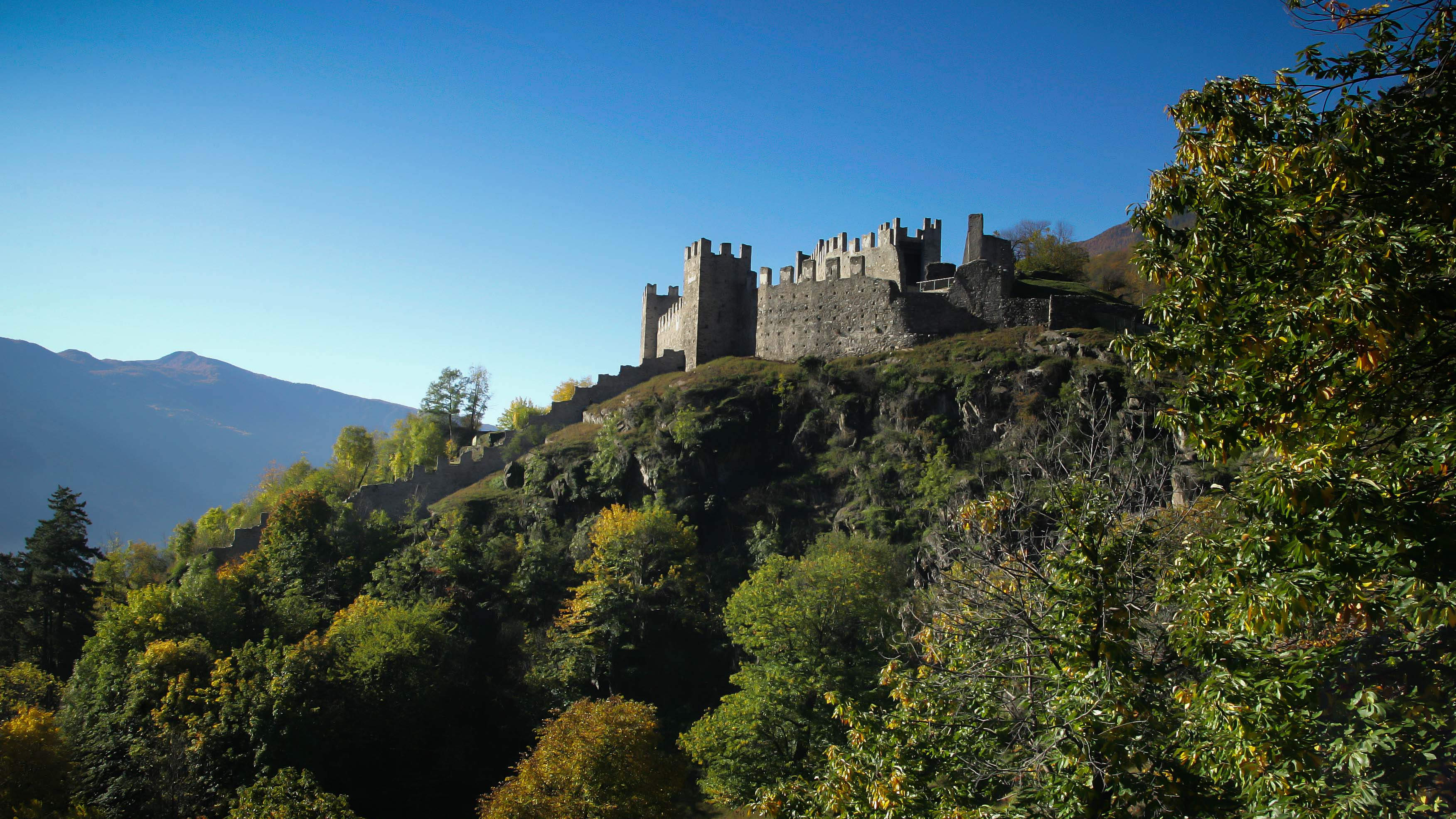 Parco Grosio; Castello Nuovo